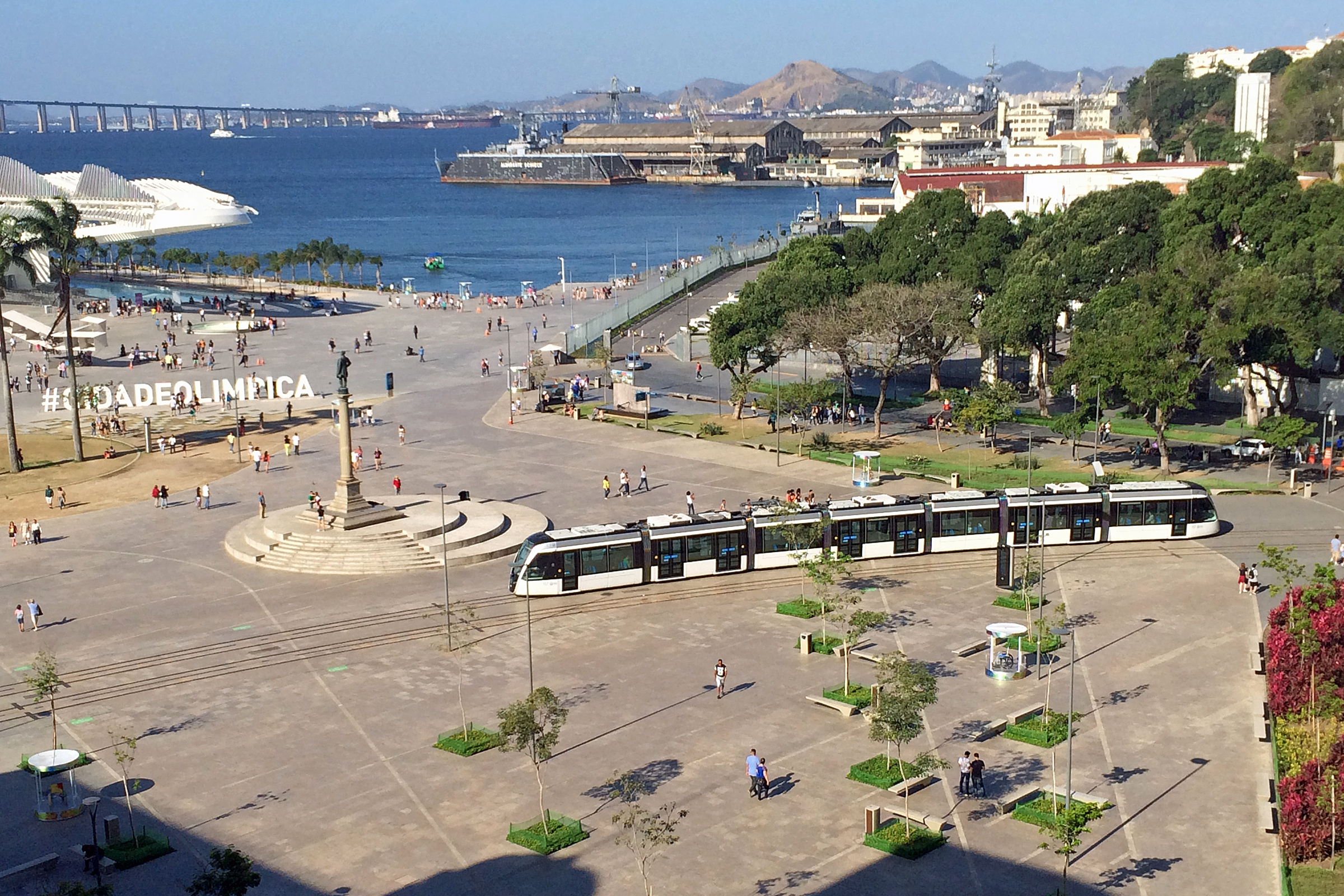 LRT Carioca, Rio de Janeiro. Aerial view of the tram at Tram at Praça Mauá.